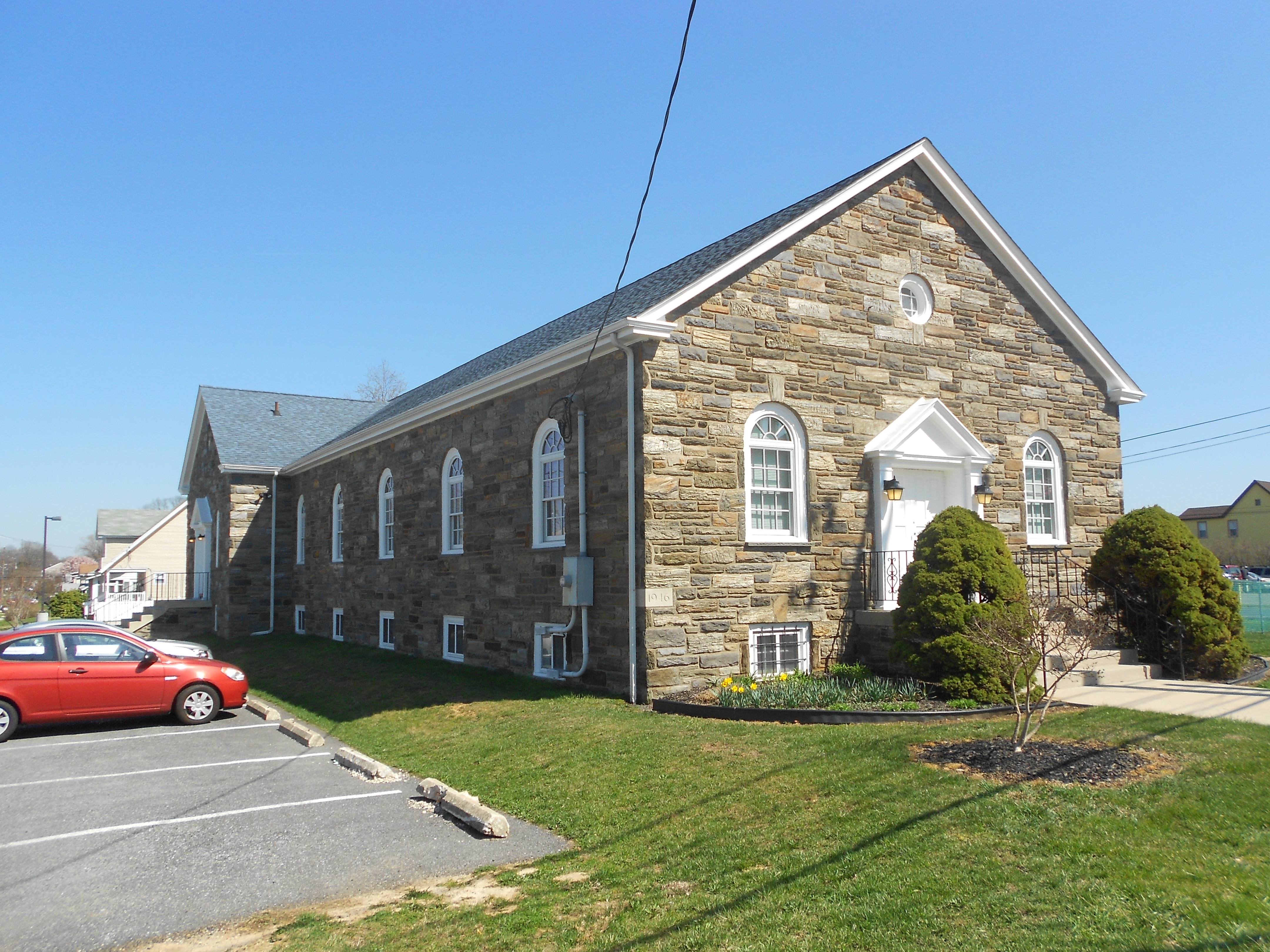 Reformed Presbyterian Church in Boothwyn, Pennsylvania, built 1946. Boothwyn is the hometown of Bill Haley of "Bill Haley and the Comets" who probably didn't have much to do with this church